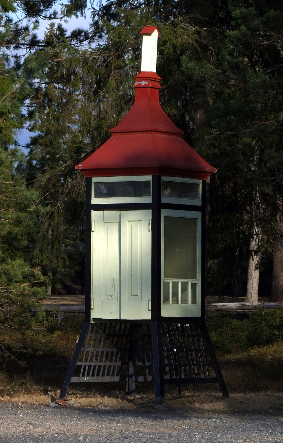 The unused telephone booth near the Maikkula mansion in Oulu, Finland. The booth was designed by J.W. Miesmaa in late 1920's and it was common design for telephone booths in Oulu for many decades.